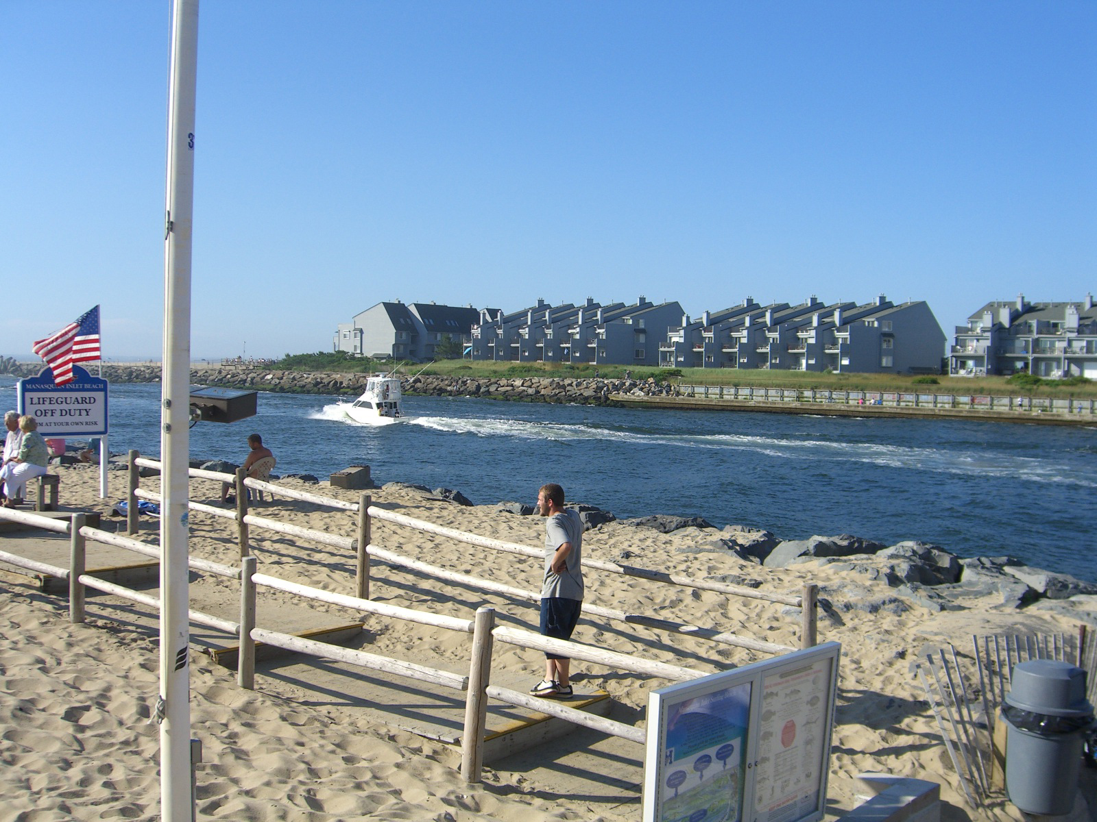 Manasquan Inlet beach in Manasquan, New Jersey. The background shows beachfront residences in neighboring Point Pleasant in Ocean County, New Jersey, with the Manasquan River separating the two.